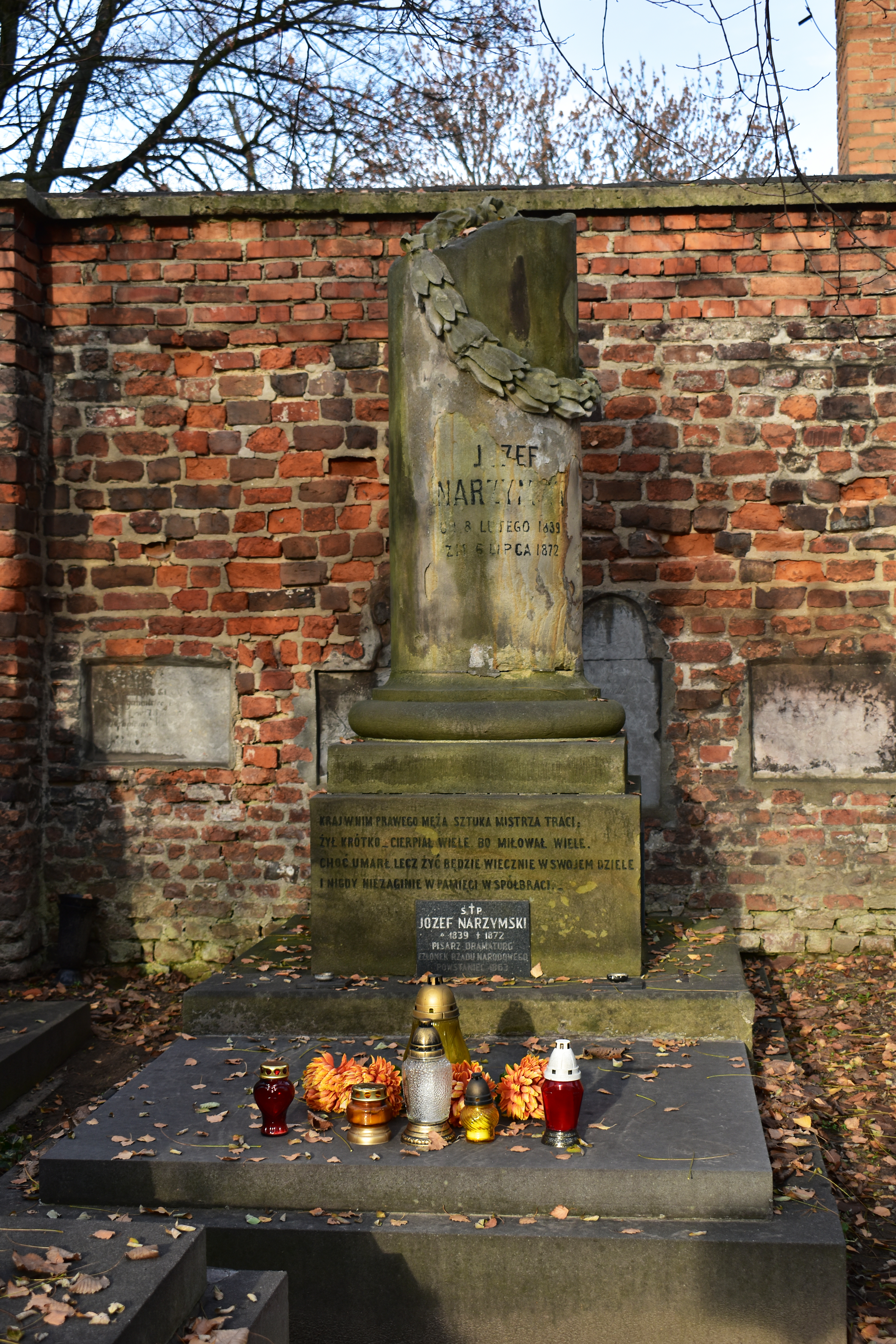 Grave of Jozef Narzymski (Polish poet, publicist, politician), Rakowice Cemetery, 26 Rakowicka street, Krakow, Poland